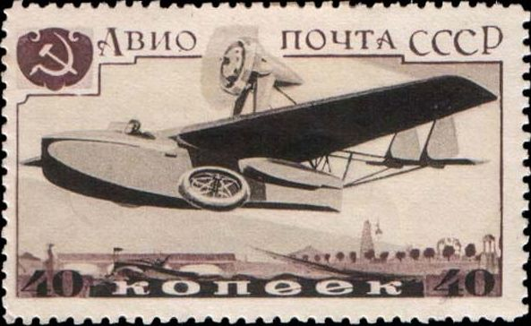 The Soviet Union 1937 CPA 563 stamp (Chyetverikov OSGA-101-SPL). Seriesː Air. Soviet Aviation